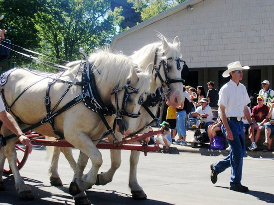 American Cream Draft Horses in Minnesota State Fair Parade